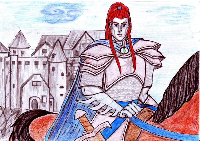 Maedhros again... The title says “Get free of your enemies”... I do not know what language it is, but its an old one. Its part of a medieval song. The titel is although engraved in the swordhilt as runes.